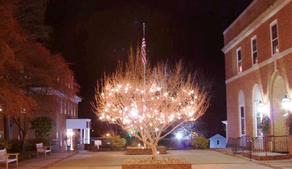 Warrenton town square at Christmas time